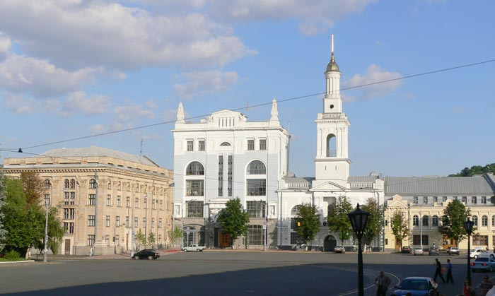 The Kontraktova Square in Kiev the capital of Ukraine.